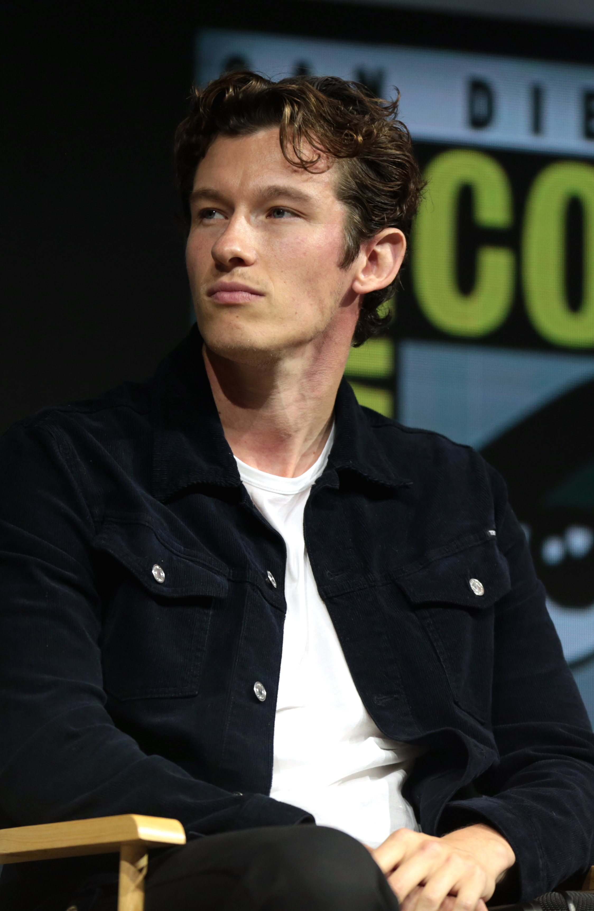 Callum Turner speaking at the 2018 San Diego Comic-Con International in San Diego, California.